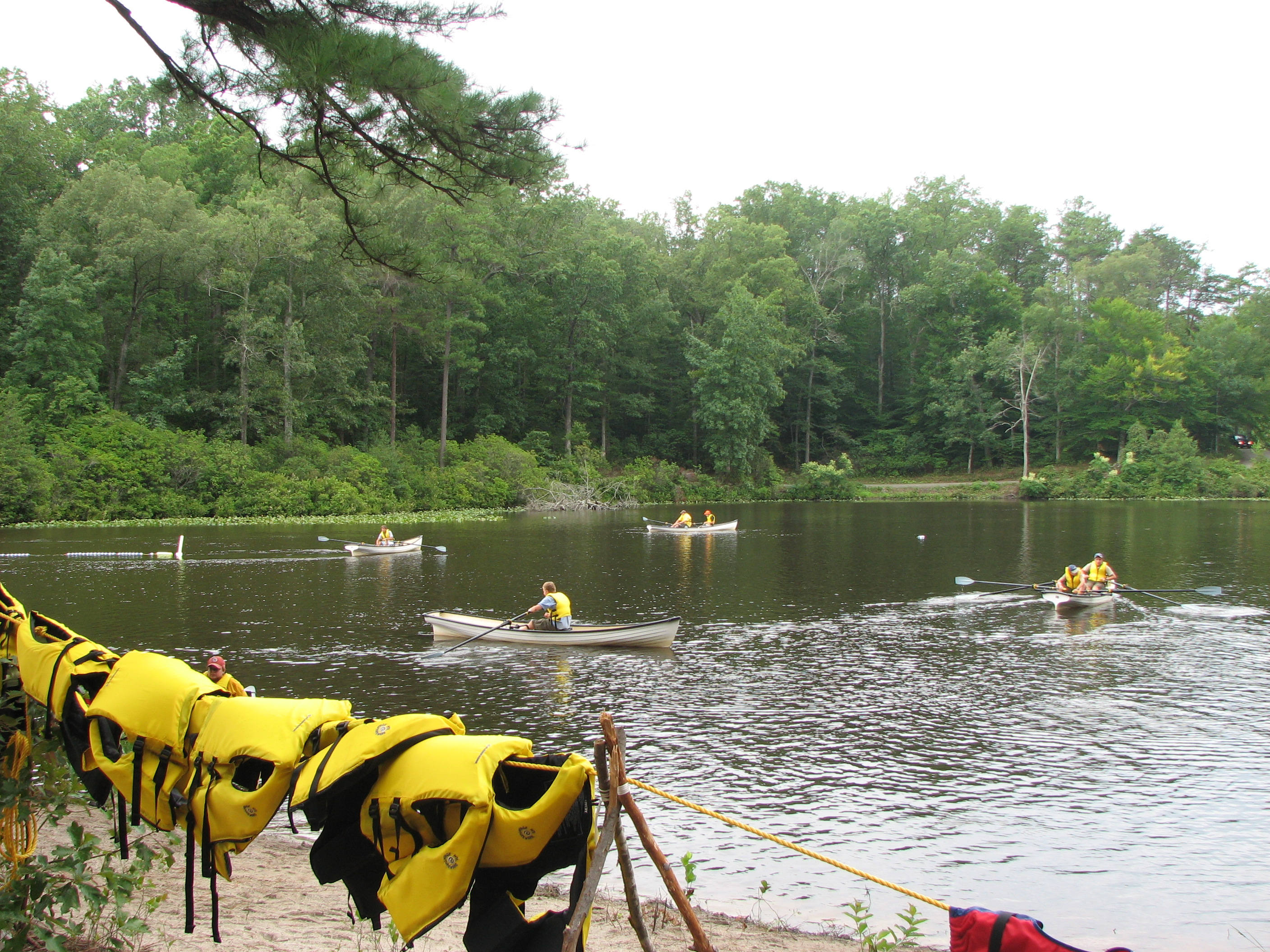 One- and two-man racing shells on Upper Travis Lake at the 2010 National Scout Jamboree.